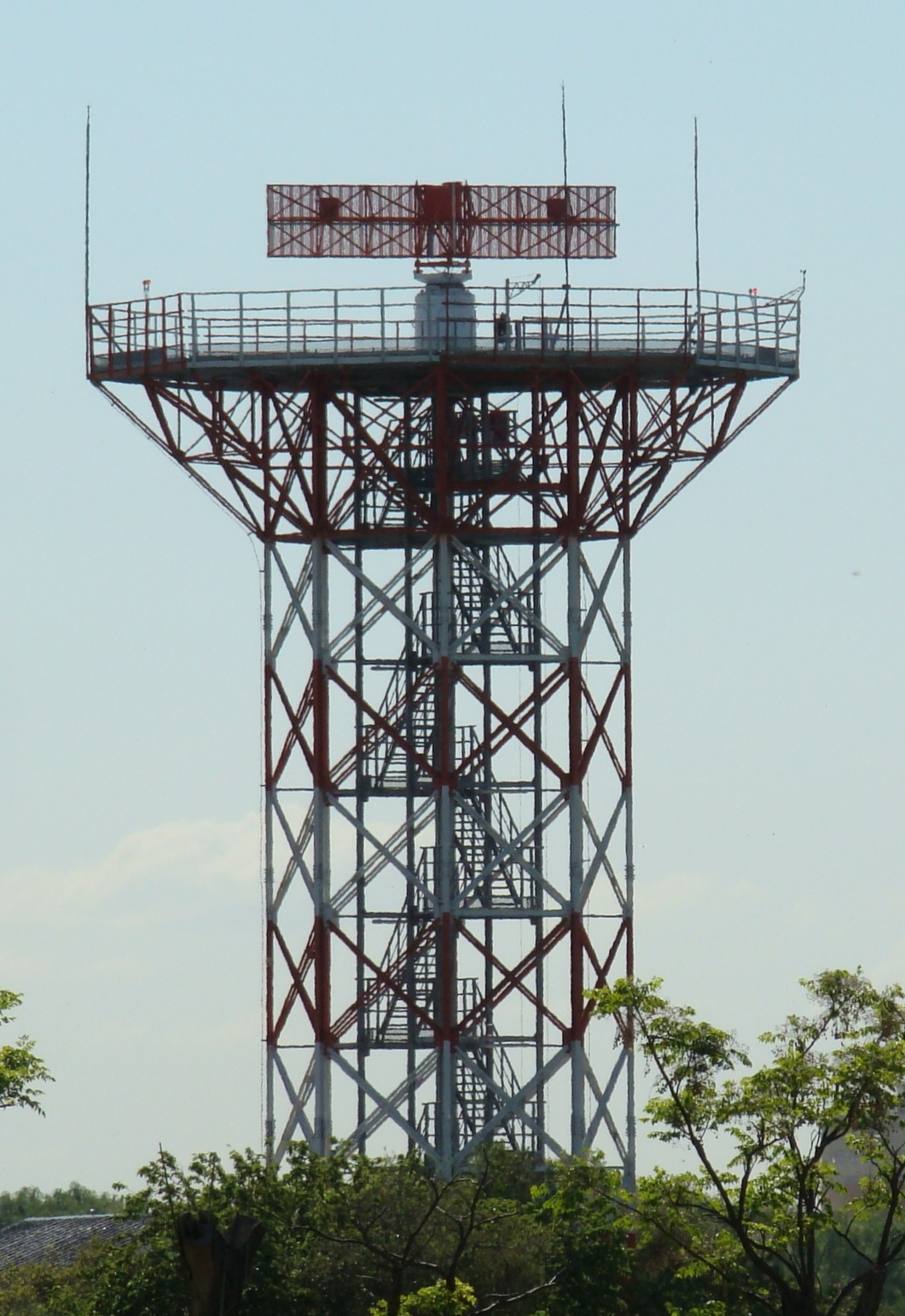 2D Radar Inkan at Quilmes, Argentina designed and built by INVAP